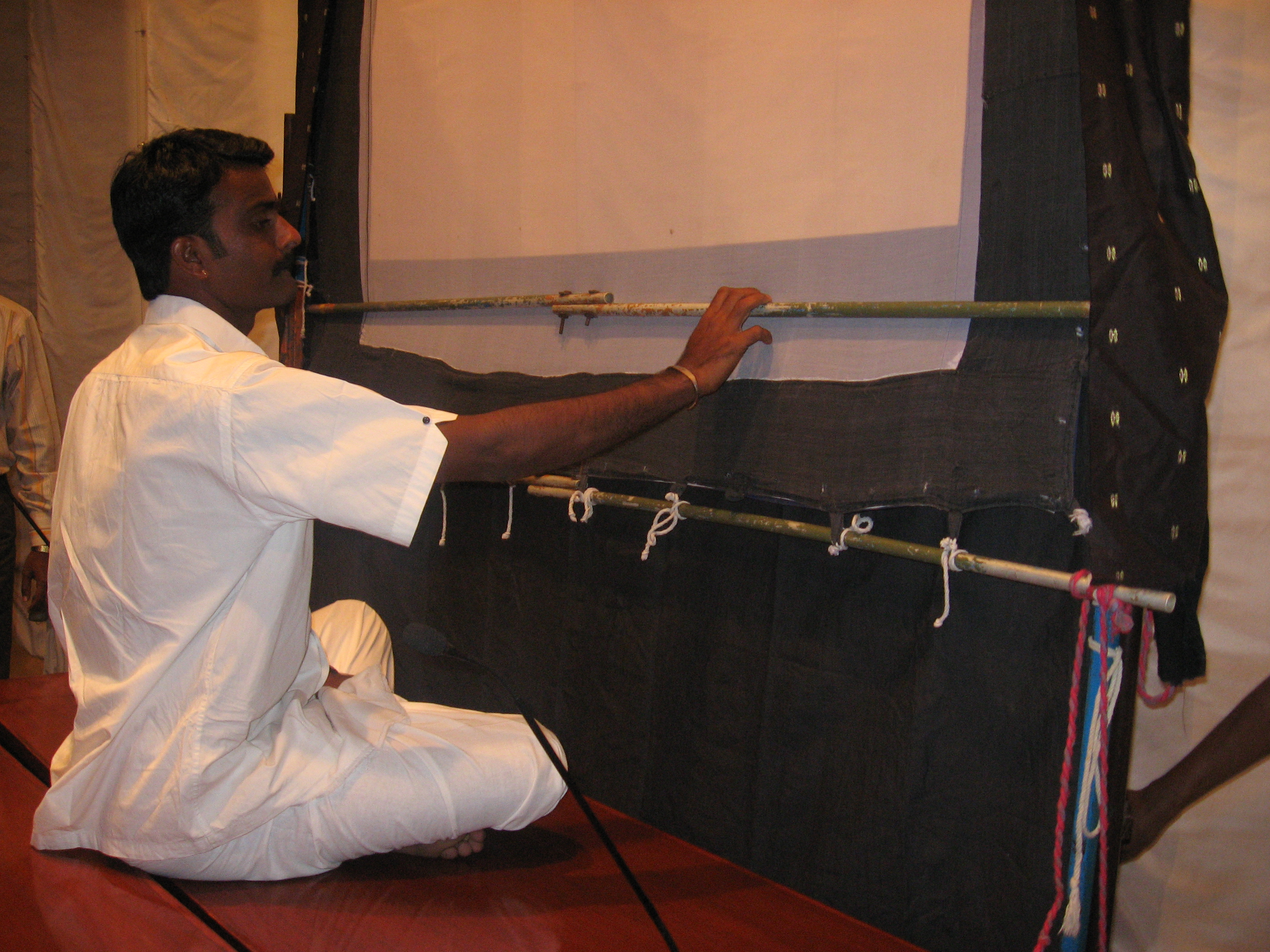 Performing Thol kuthu (Shadow Puppet Show)